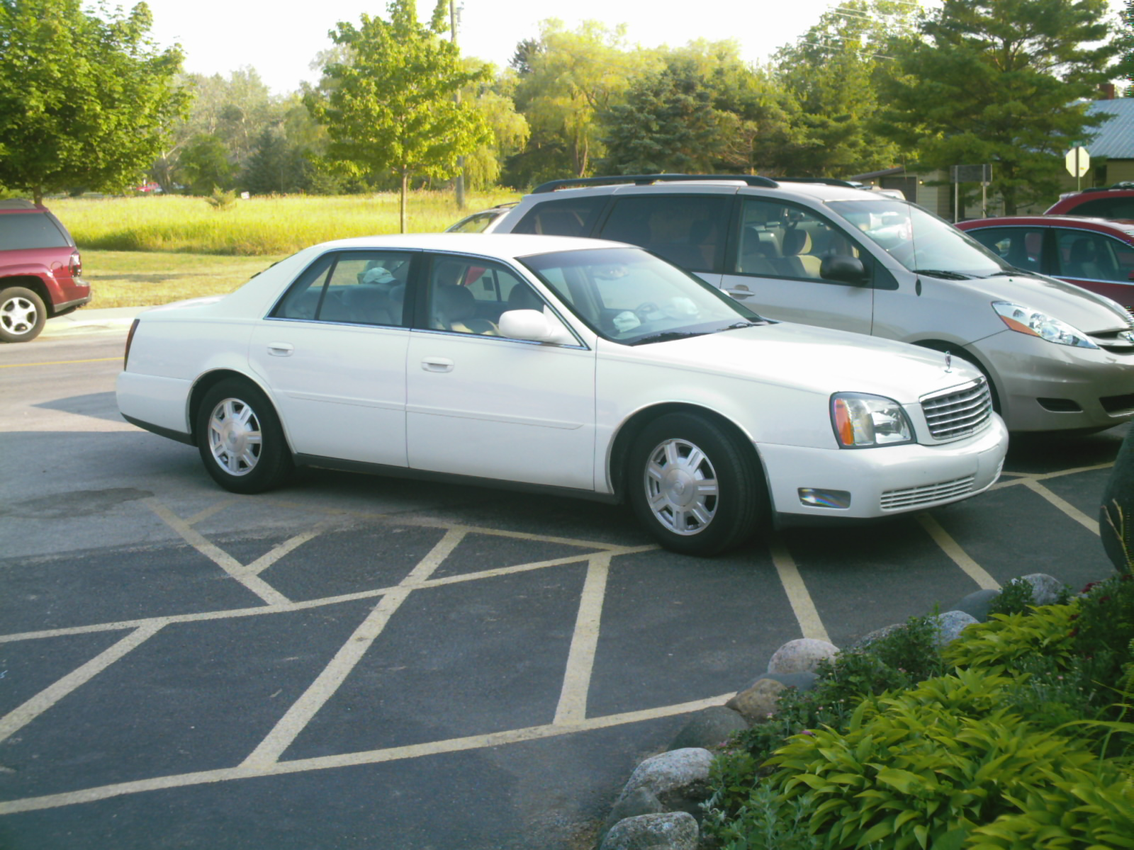 2004 Cadillac Deville photographed in a parking lot in Cross Villagbe, Michian.